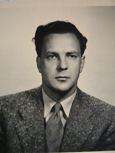 L.I. Suurla as director of Rastor during the early 1950s.